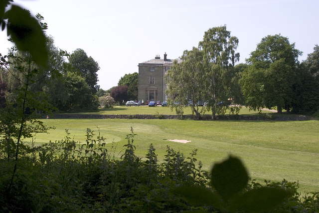 Allestree Hall And Golf Course- Allestree Country Park